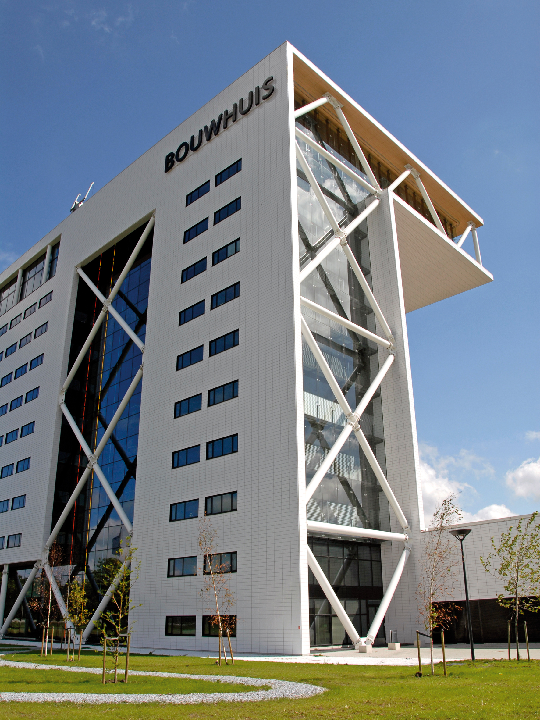 The Bouwhuis ('Construction House'), headquarters of Bouwend Nederland ('Netherlands Constructing'), a Dutch trade association of construction companies. The building is located in Zoetermeer.